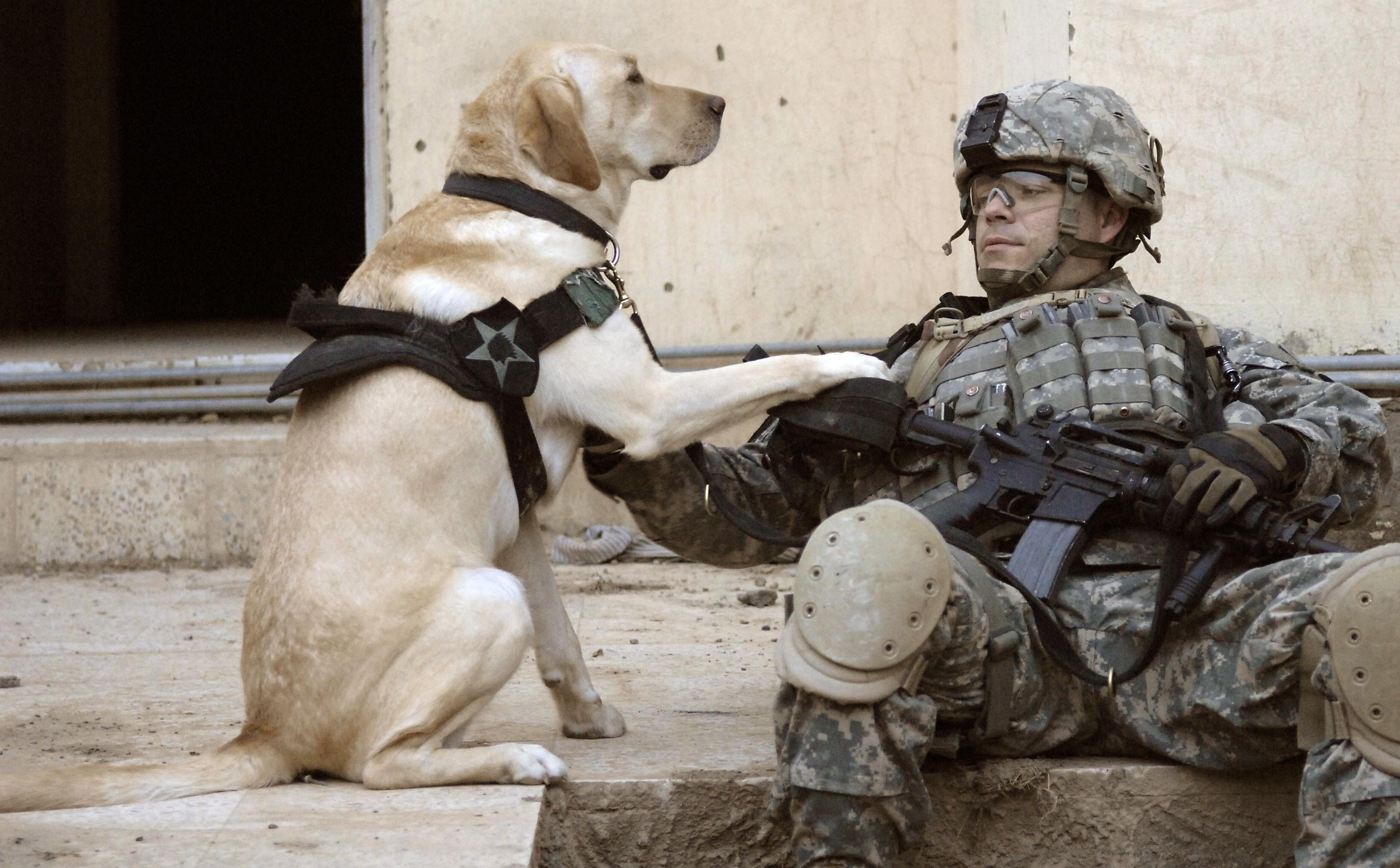 U.S. Army Staff Sgt. Kevin Reese and his military working dog Grek wait at a safe house before conducting an assault against insurgents in Buhriz, Iraq, April 10, 2007. U.S. Army Soldiers from 5th Battalion, 20th Infantry Regiment, 2nd Infantry Division and Iraqi army soldiers from 4th Battalion, 2nd Brigade, 5th Iraqi Army Division are going house-to-house in search for weapons caches and enemy fighters after more than 1,000 residents of this Baqubah suburb were displaced by Al-Qaeda insurgents. (U.S.Air Force photo by Staff Sgt. Stacy L. Pearsall)